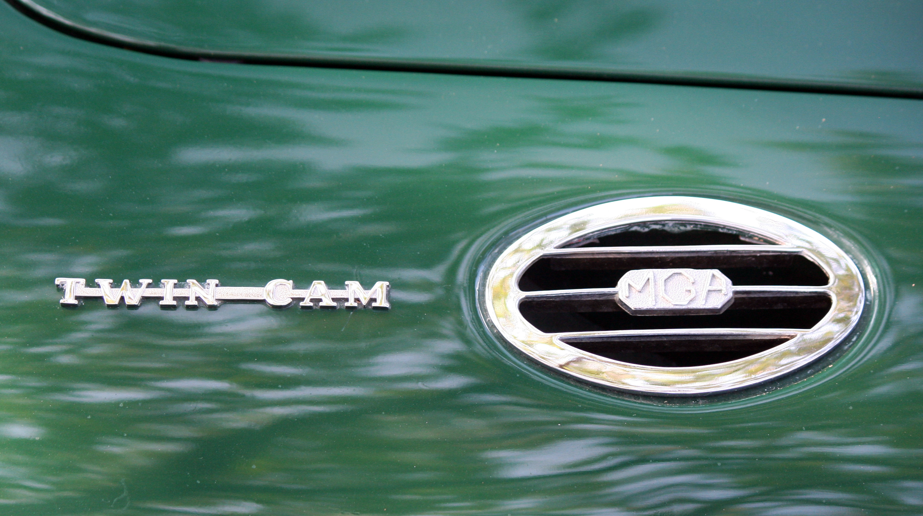 MGA Twin Cam. Somewhat mysteriously titled as a 1961 even though production came to an end in April 1960. Dunlop steel knock-off peg-drive wheels.